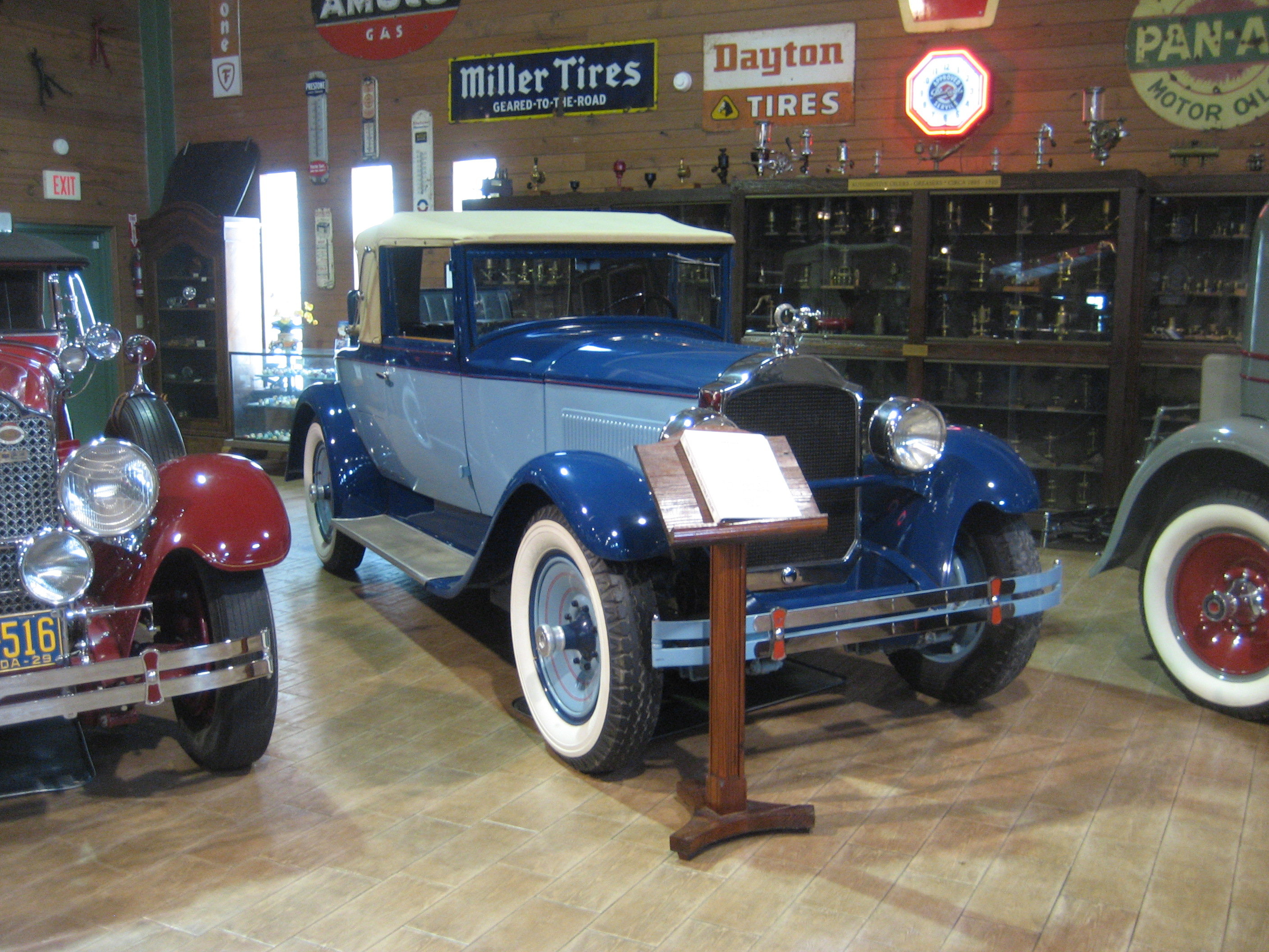 1928 Packard Model 5-26 Convertable Coupe on display at the Fort Lauderdale Antique Car Museum.